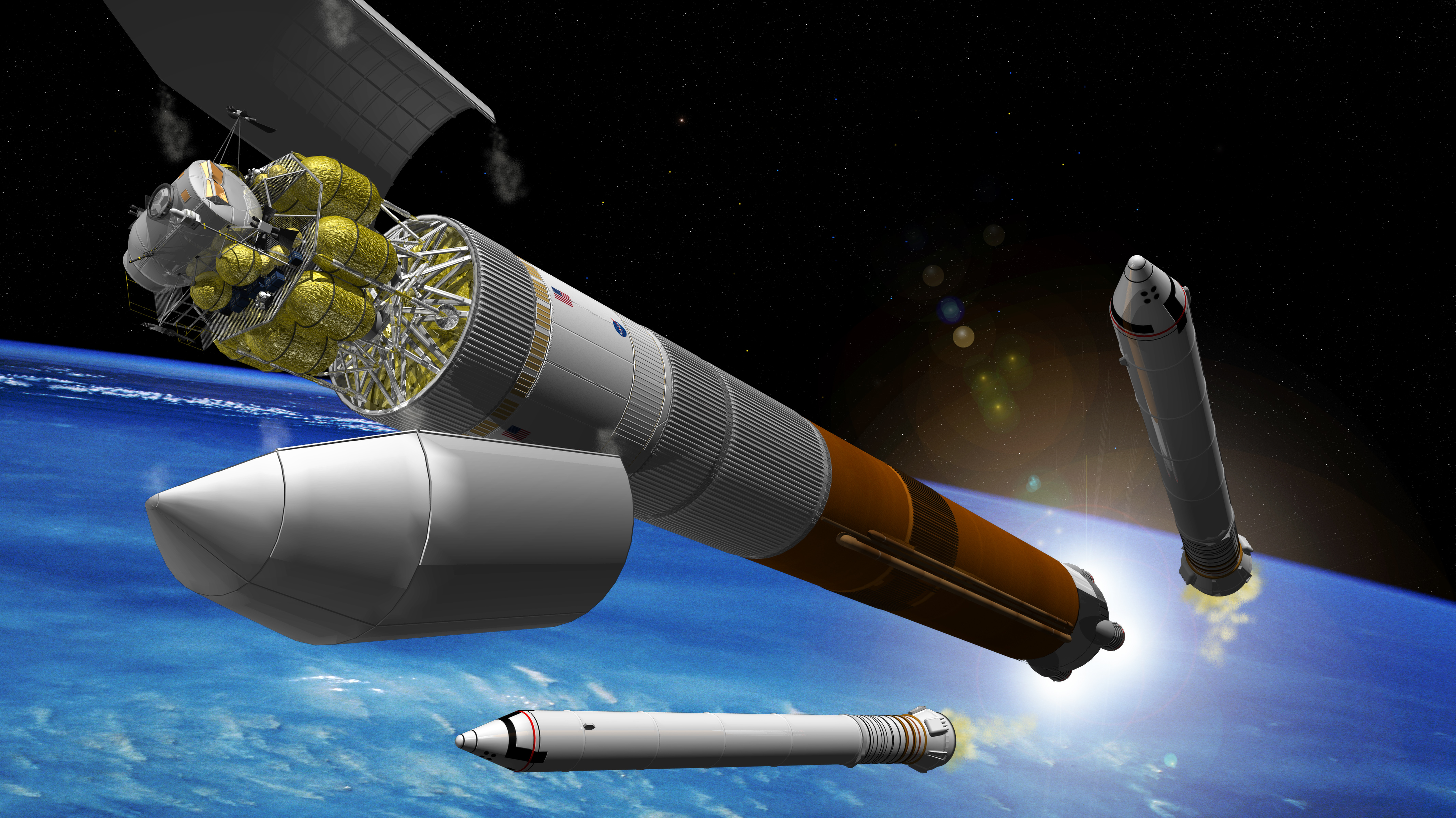 An Ares V jettisons fairing and SRBs as it ascends to orbit